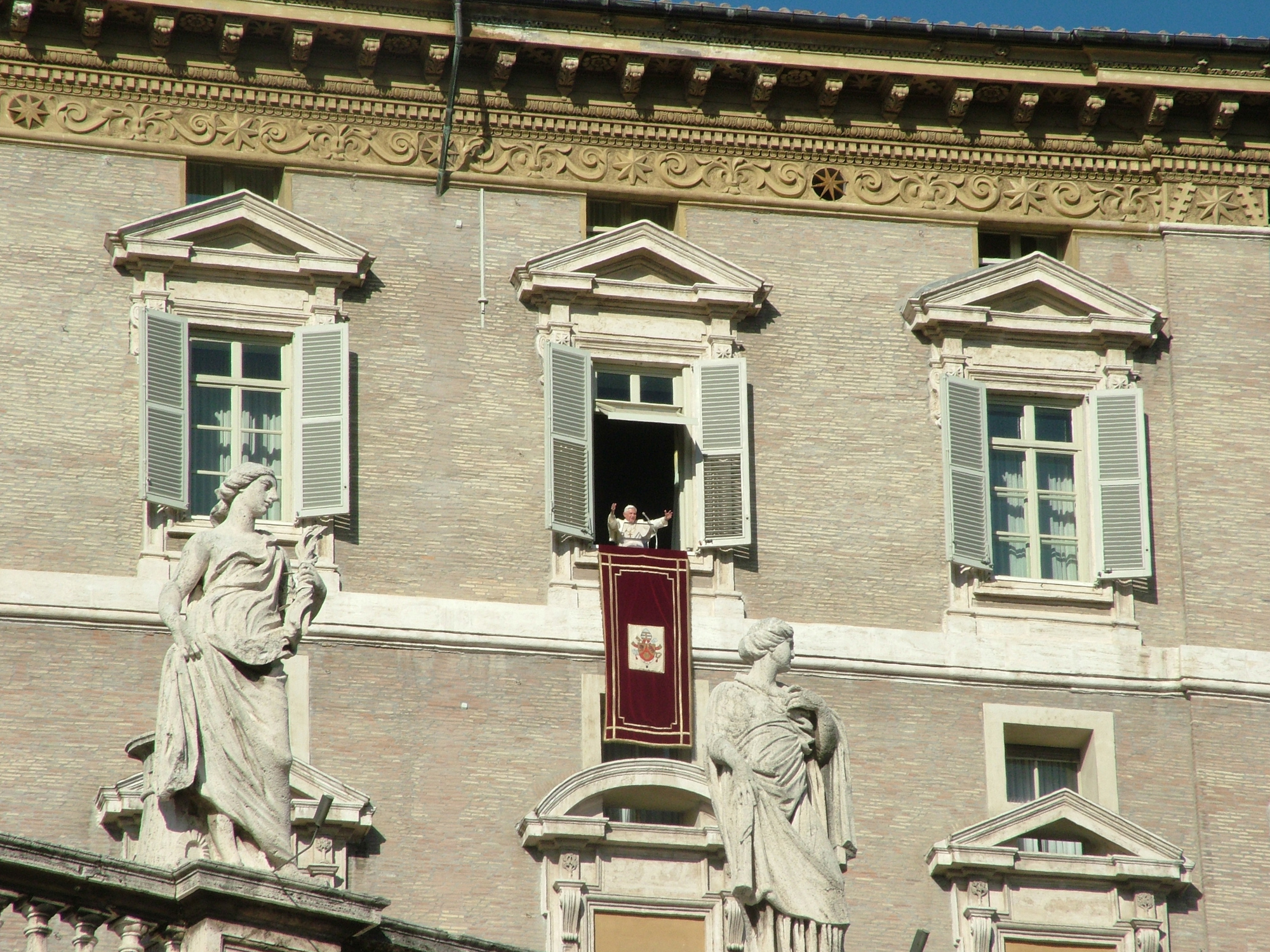 Pope Benedict XVI, traditional weekly mess, Vatican.